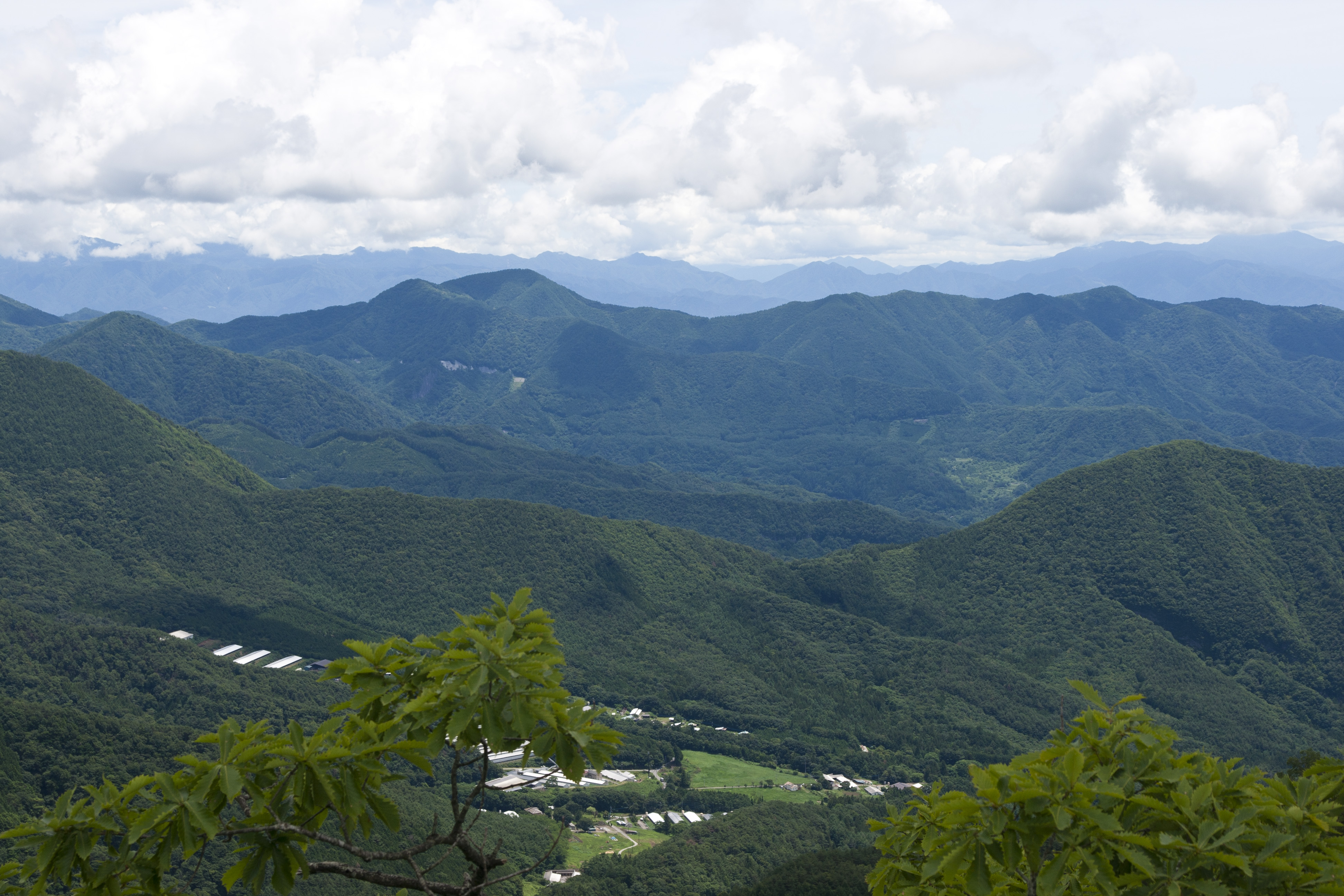 Mt.Mizugamori as seen from Mt.Kayagatake, Okuchichibu Mountains, Yamanashi Pref., Japan